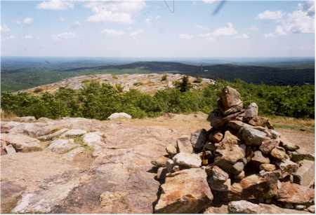 Mount Watatic along the Midstate Trail (Massachusetts) and the Wapack Trail. by Paul Gagnon 2003.